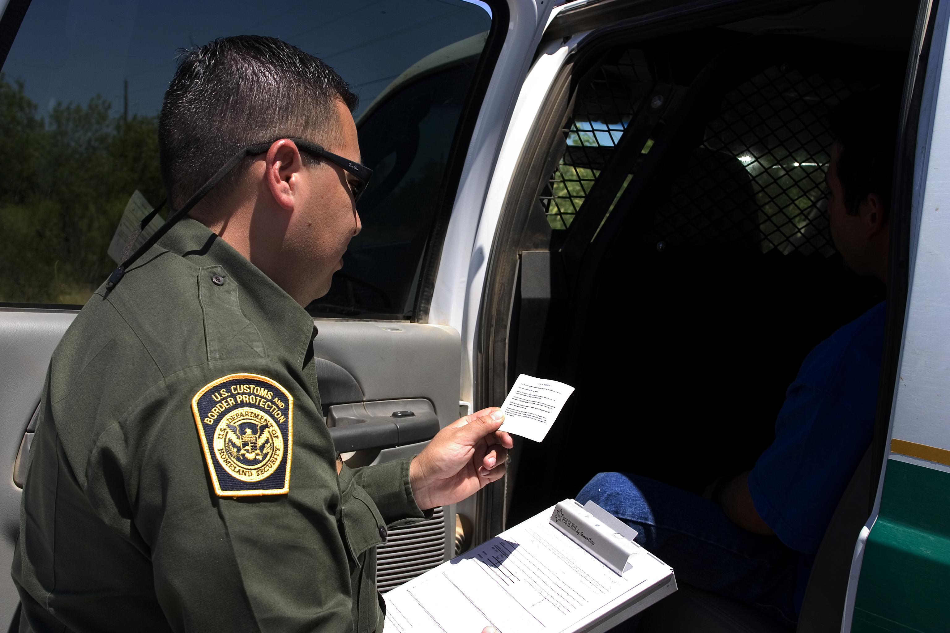 Border Patrol agent reads the Miranda rights to a Mexican national arrested for transporting drugs (U.S. Customs and Border Protection - United States Department of Homeland Security)